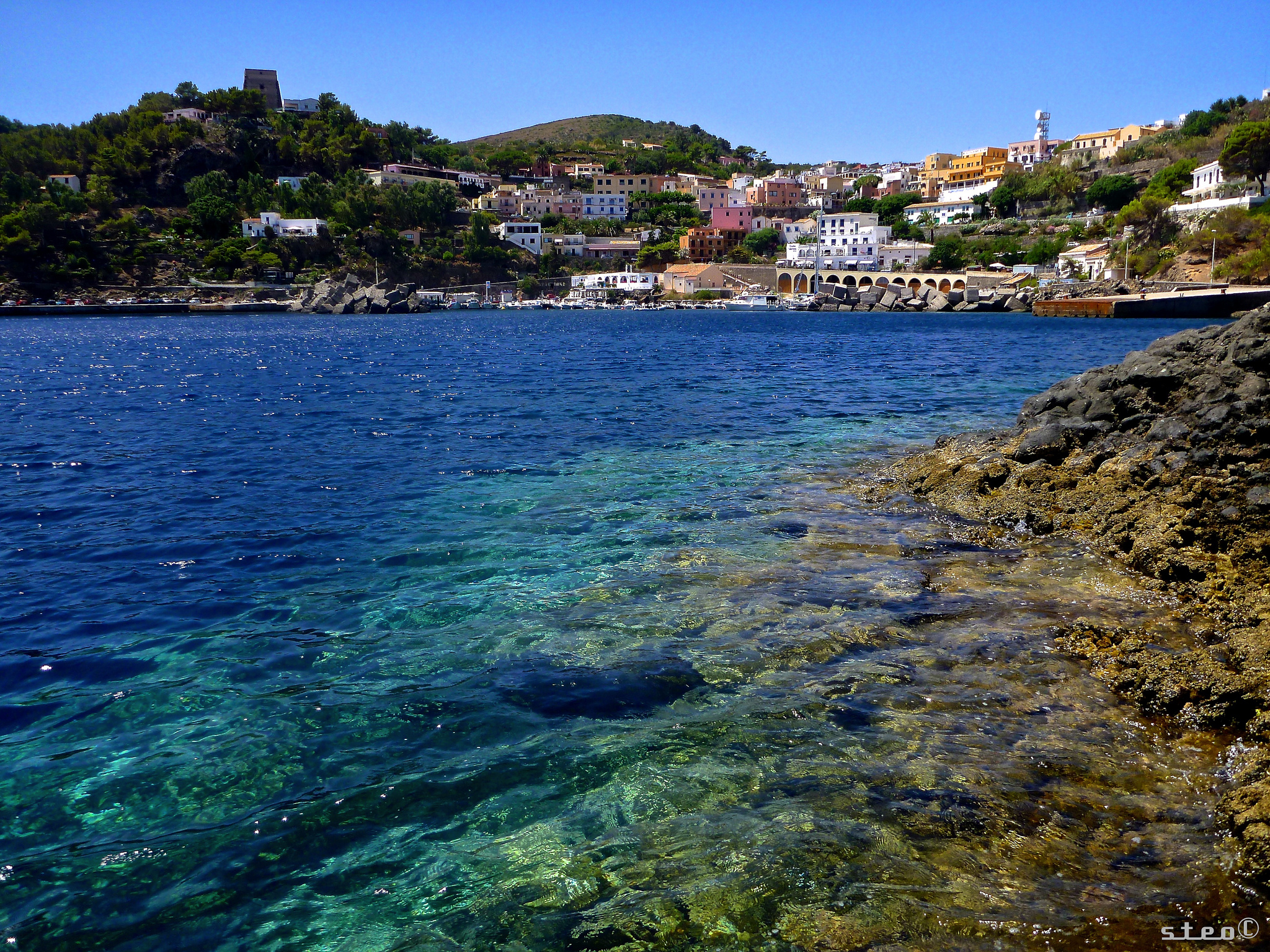 Ustica village from the sea